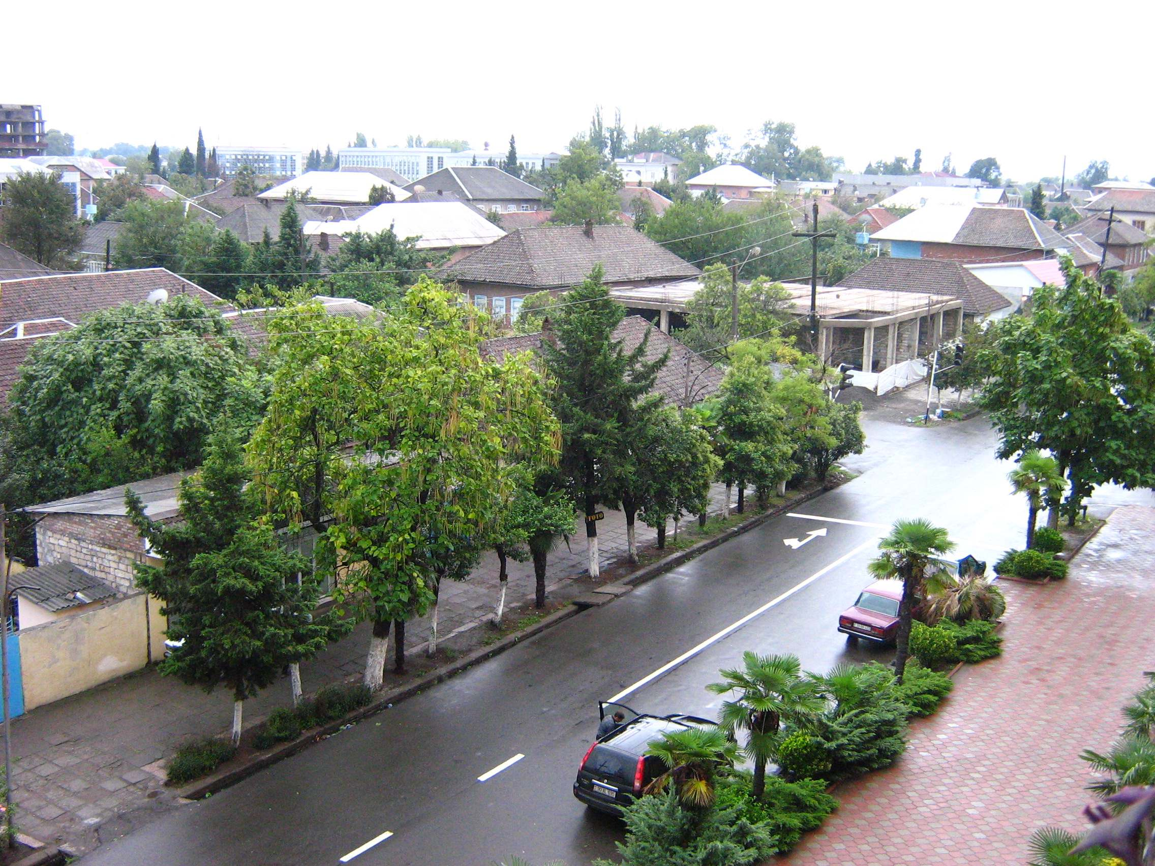 A street in Lenkoran, Azerbaijan